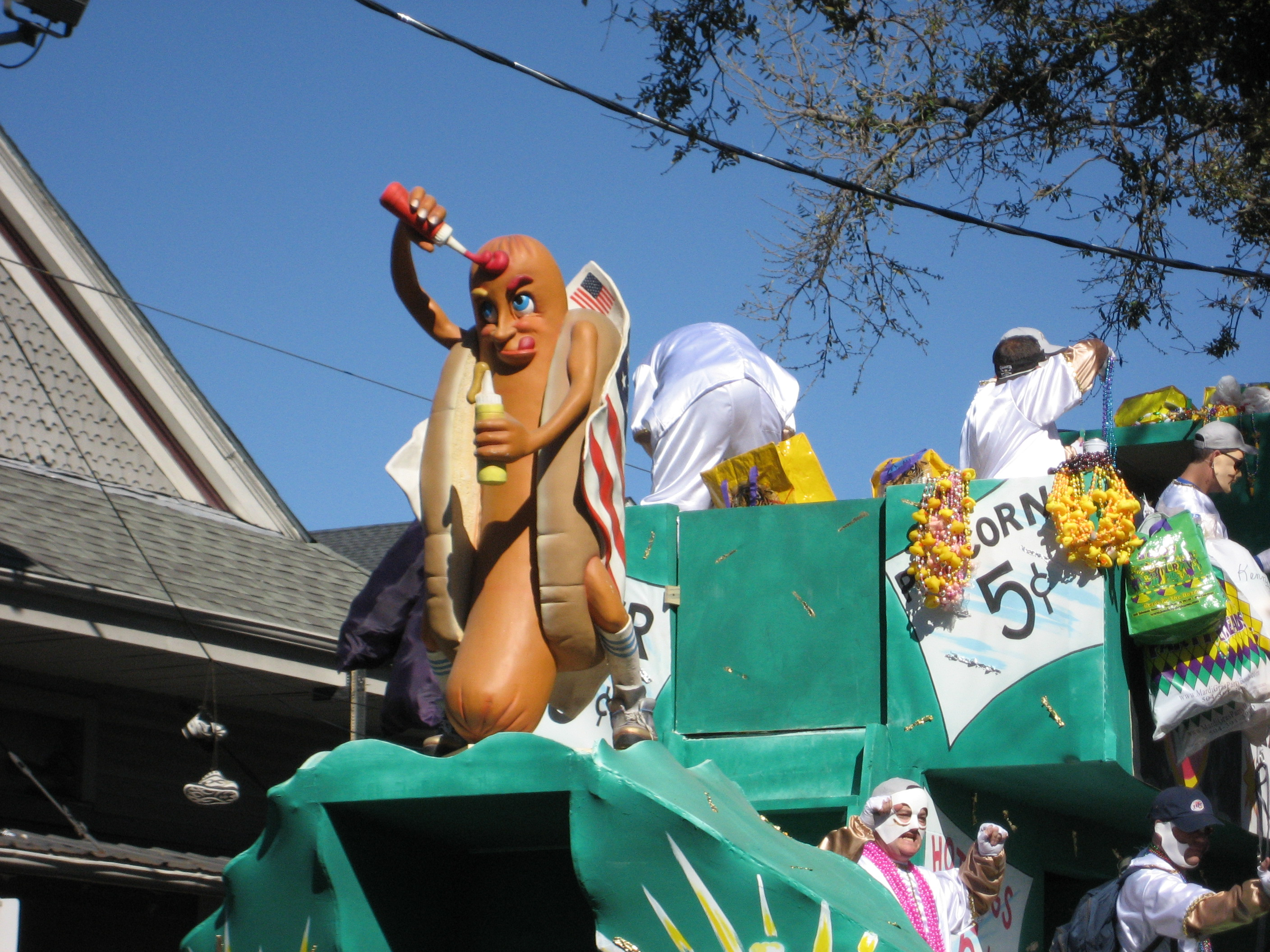 New Orleans Carnival. Thoth parade on Magazine Street. Float with depiction of cartoon anthropomorphic hot dog. Photo by Infrogmation, Sunday before Mardi Gras, 2007.